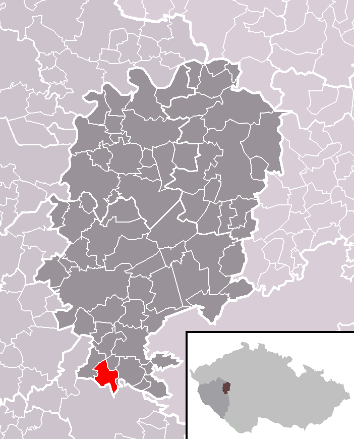 Location of Mešno municipality within Rokycany District and within identical administrative area of Rokycany as a Municipality with Extended Competence.